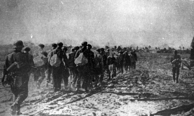 Примусове вивезення жителів Миколаївщини до Німеччини, 1943 р.